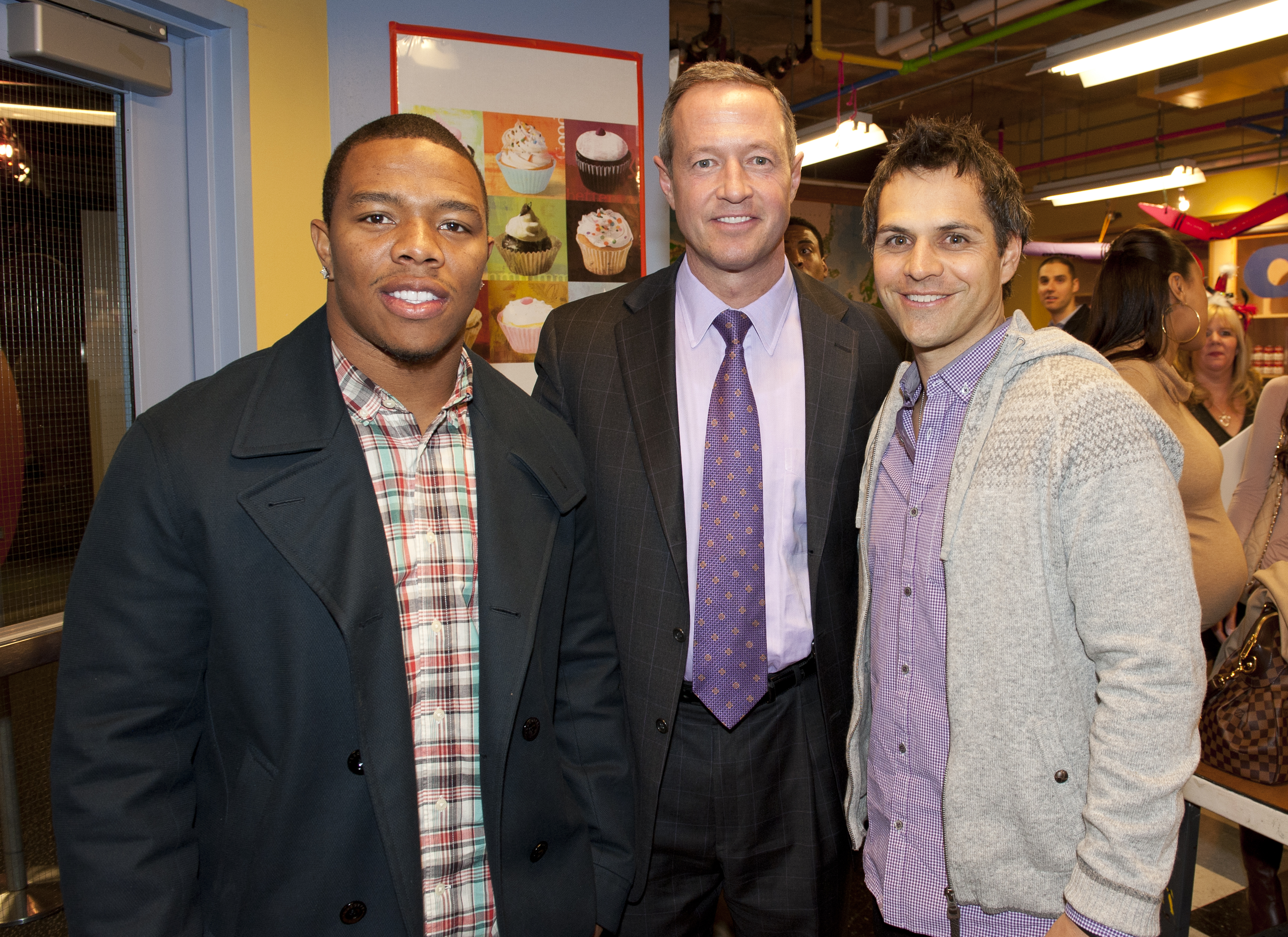 Raven Ray Rice and Balto. Oriole Brian Roberts Join Governor for the Holiday Celebration of the Univ. of MD. Children's Hospital. by Jay Baker at Baltimore, MD.